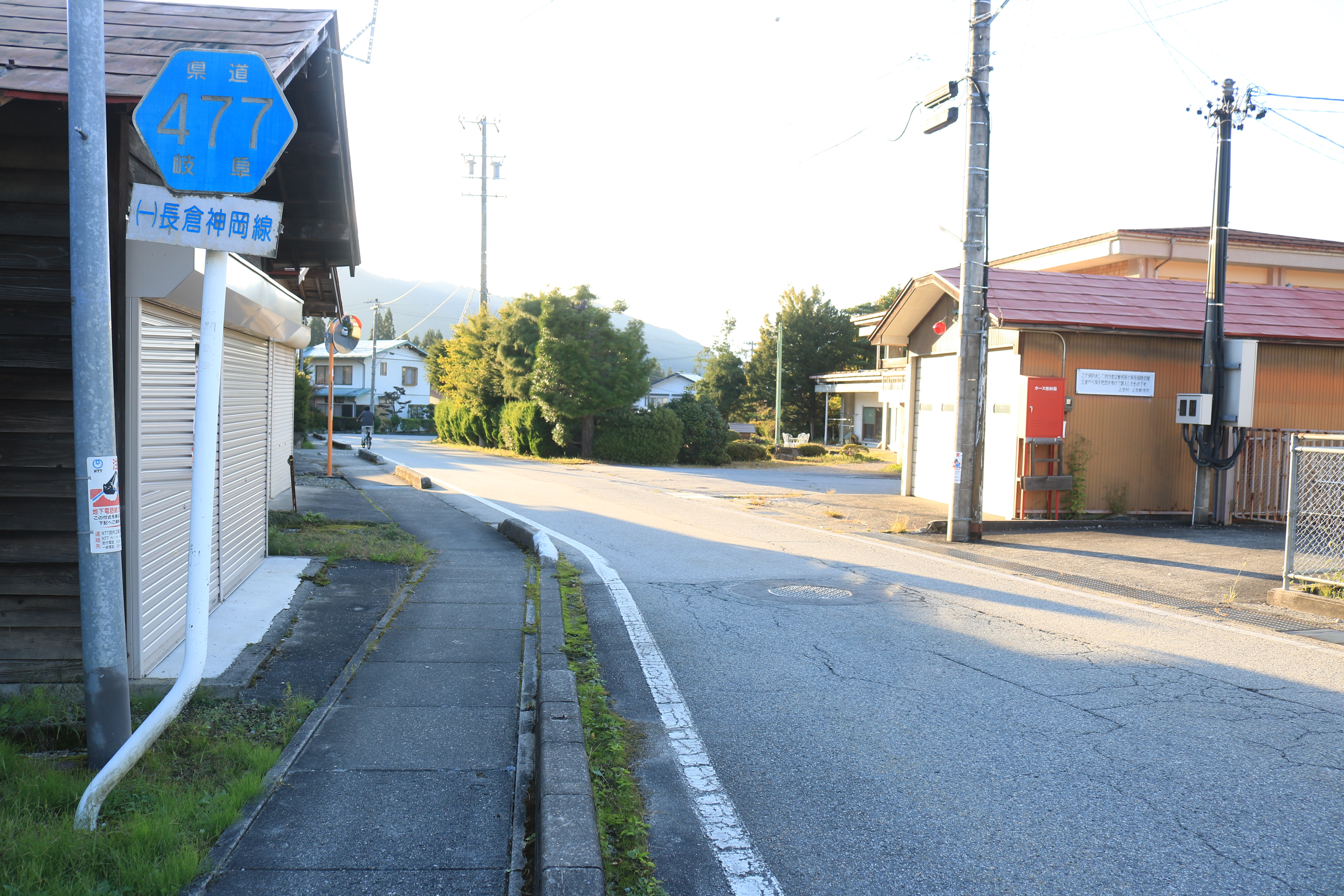 Gifu Prefectural Road Route 477 in Hongo, Kamitakara-cho, Takayama, Gifu prefecture, Japan.